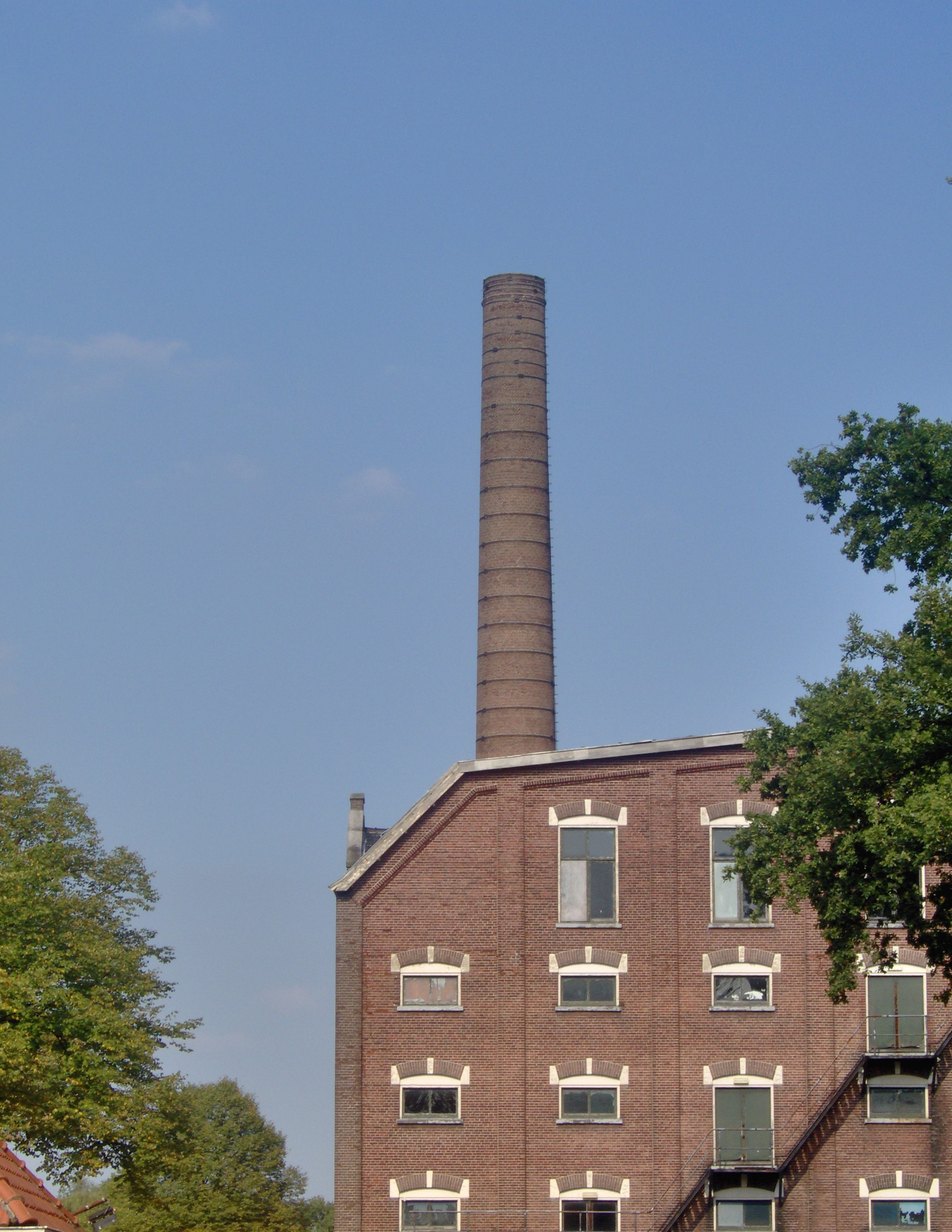 The bleaching factory N.V. Boekelosche Stoomblekerij, founded in 1888 by G.J. van Heek, later part of Unilever Location: Boekelo, a village in the municipality of Enschede, Netherlands